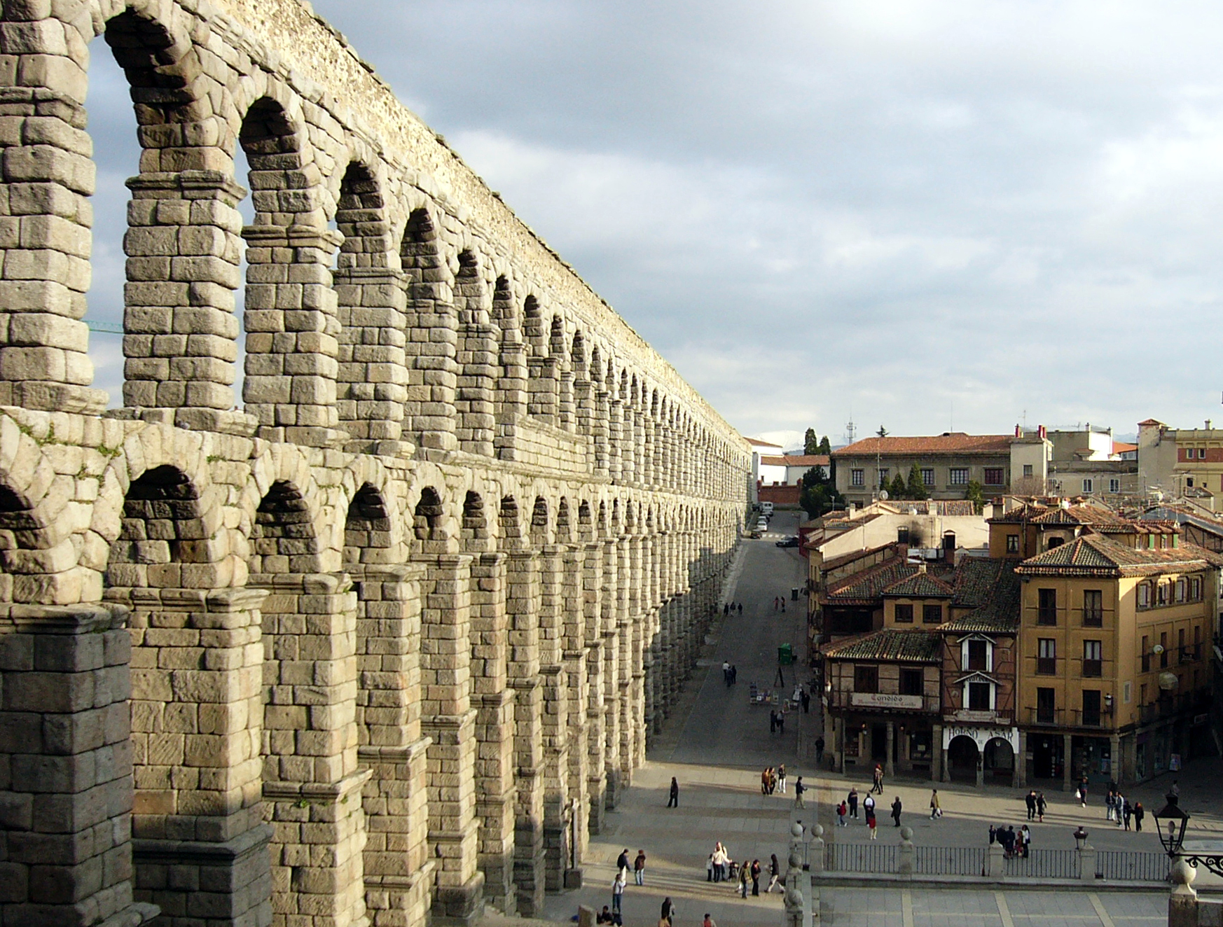 Aqueduct in Segovia, Spain